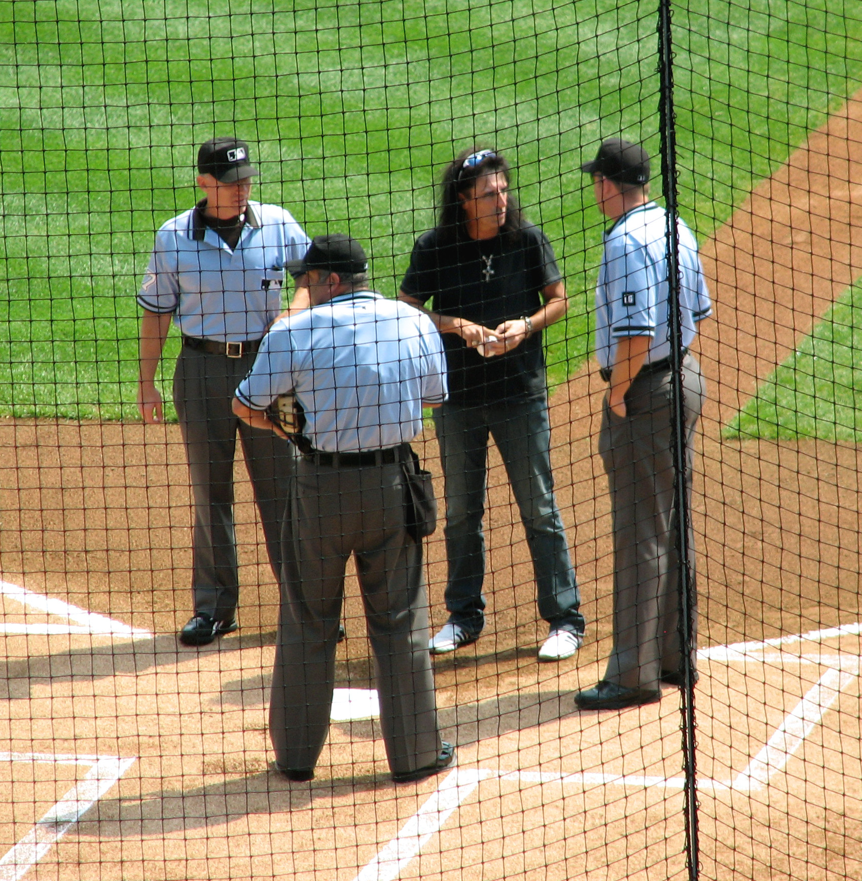 Photo with Alice Cooper